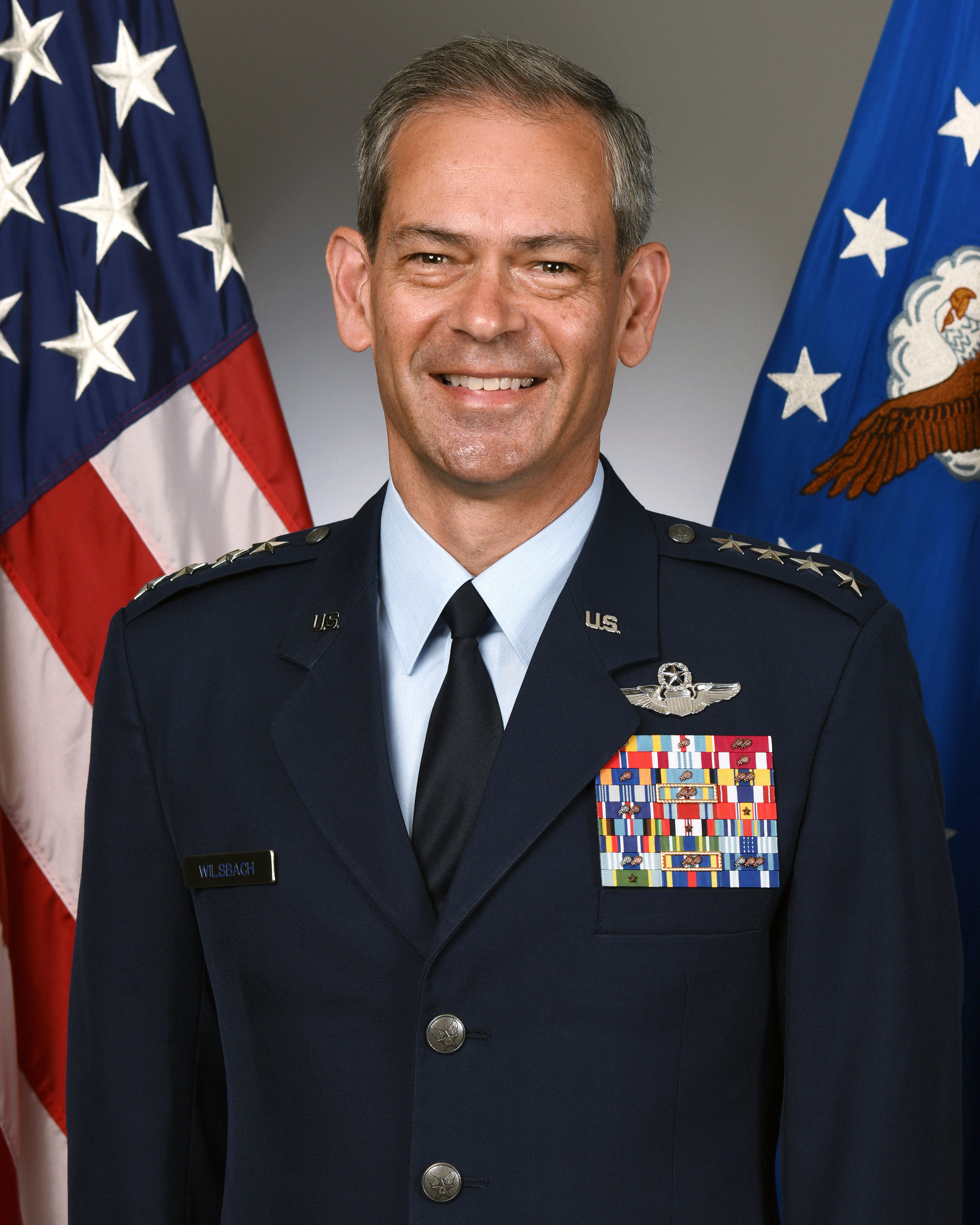 Gen. Kenneth S. Wilsbach, Commander, Pacific Air Forces; Air Component Commander, U.S. Indo-Pacific Command; and Executive Director, Pacific Air Combat Operations Staff, Joint Base Pearl Harbor-Hickam, Hawaii